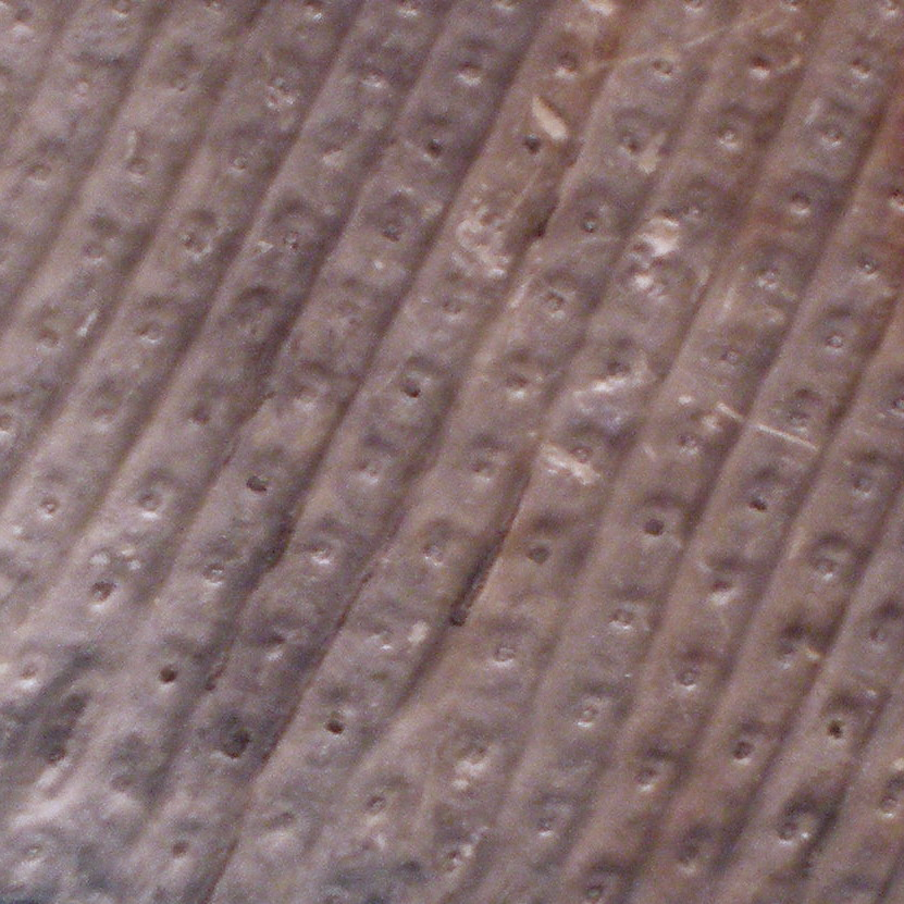 fossilized stem of Sigillaria